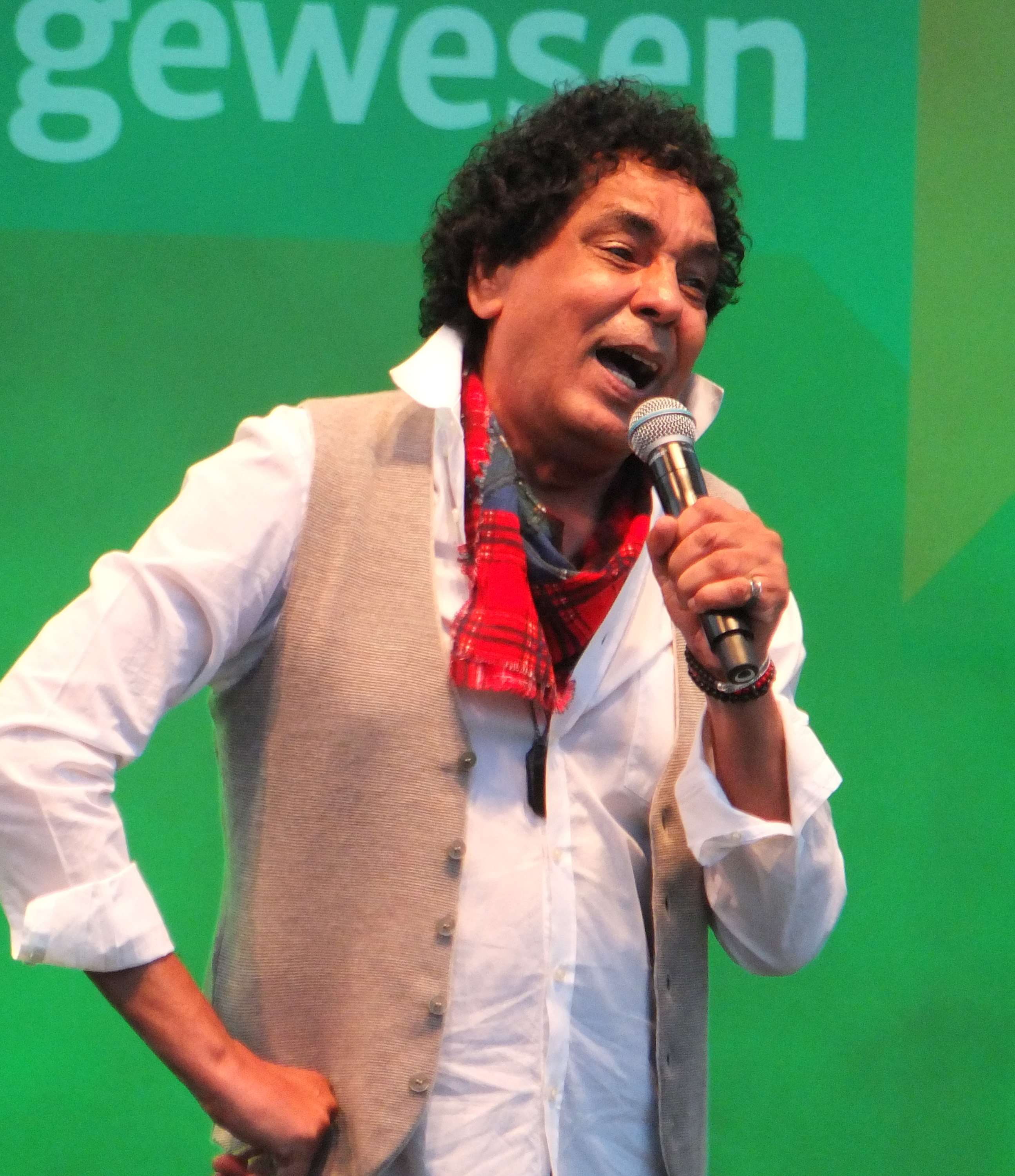 Mohamed Mounir on stage at a concert for Adel Tawil at Deutscher Evangelischer Kirchentag 2019 in Dortmund, Germany